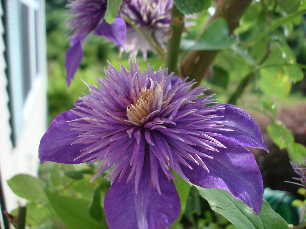 Clematis flower macro. The clematis in this photo is Multi Blue.